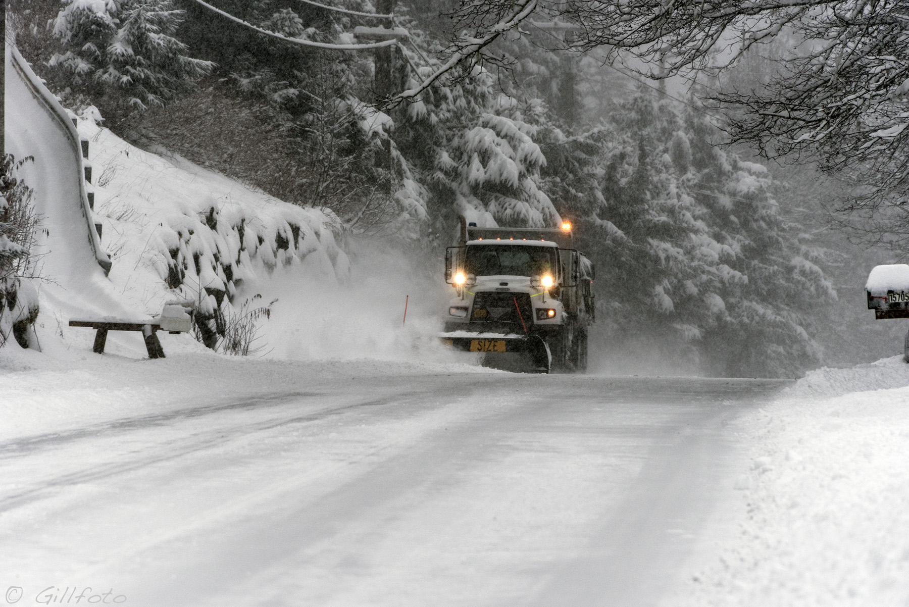 Winter Weather road conditions with CBJ Plow Truck, Juneau, Alaska